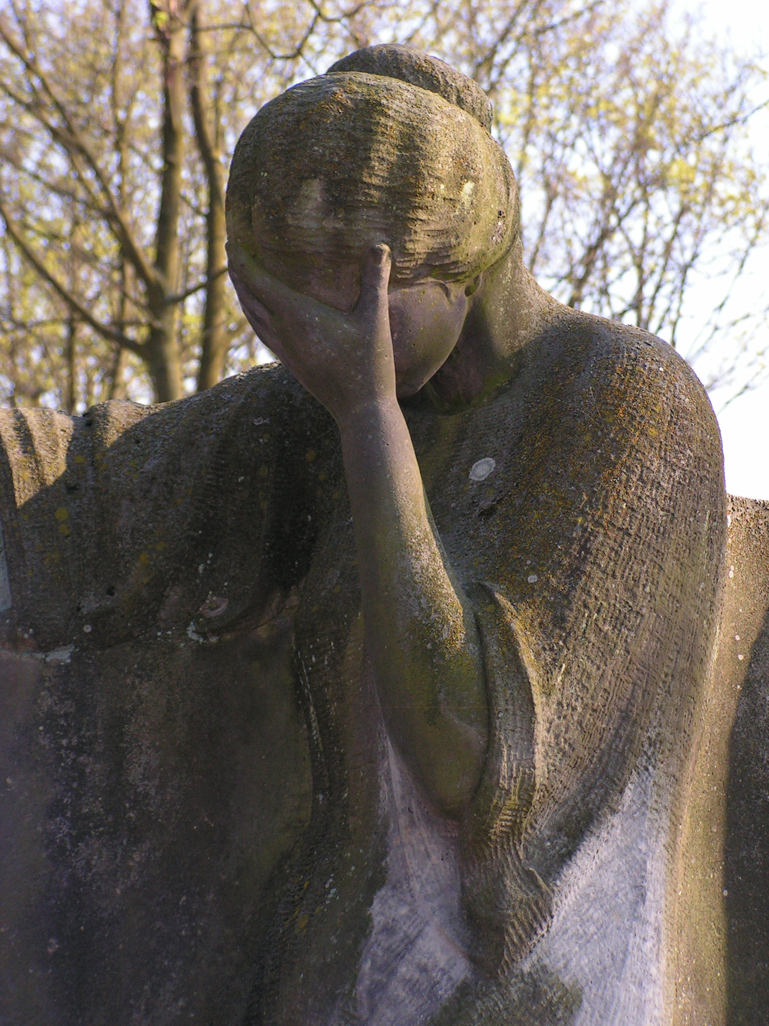 Sculpture of cryring woman, detail from Reder family's grave on Communal Cemetery in Włocławek.